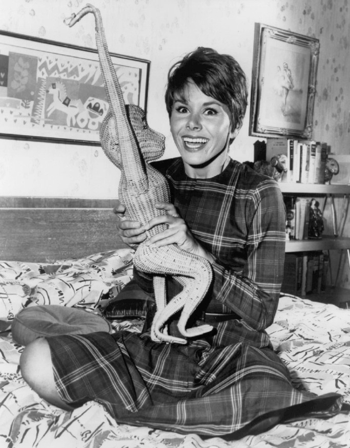 Publicity photo from Fair Exchange picturing Judy Carne as Heather Finch.